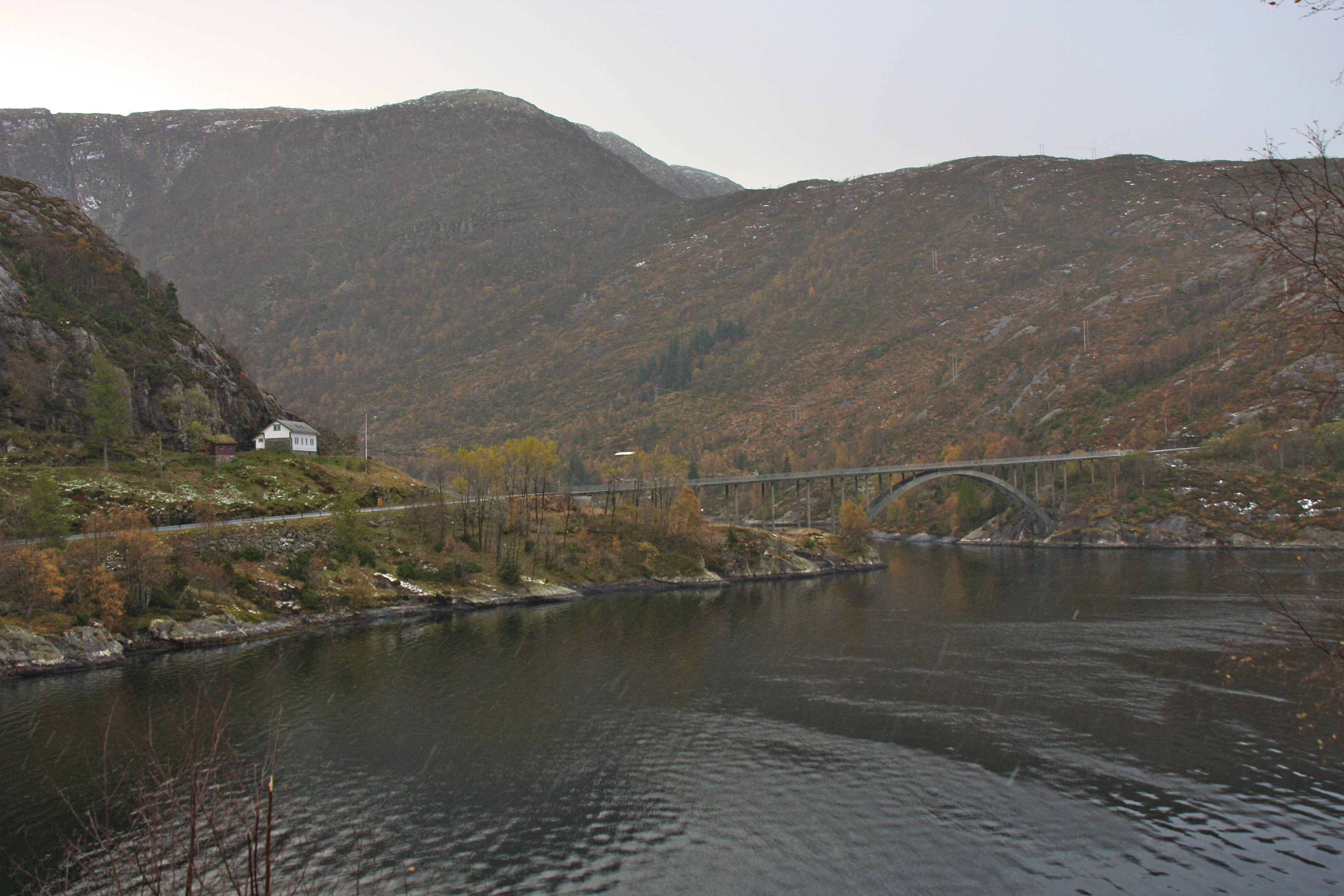 Gulen municipality, Norway.